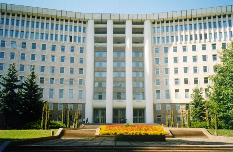 Moldovan Parliament Building